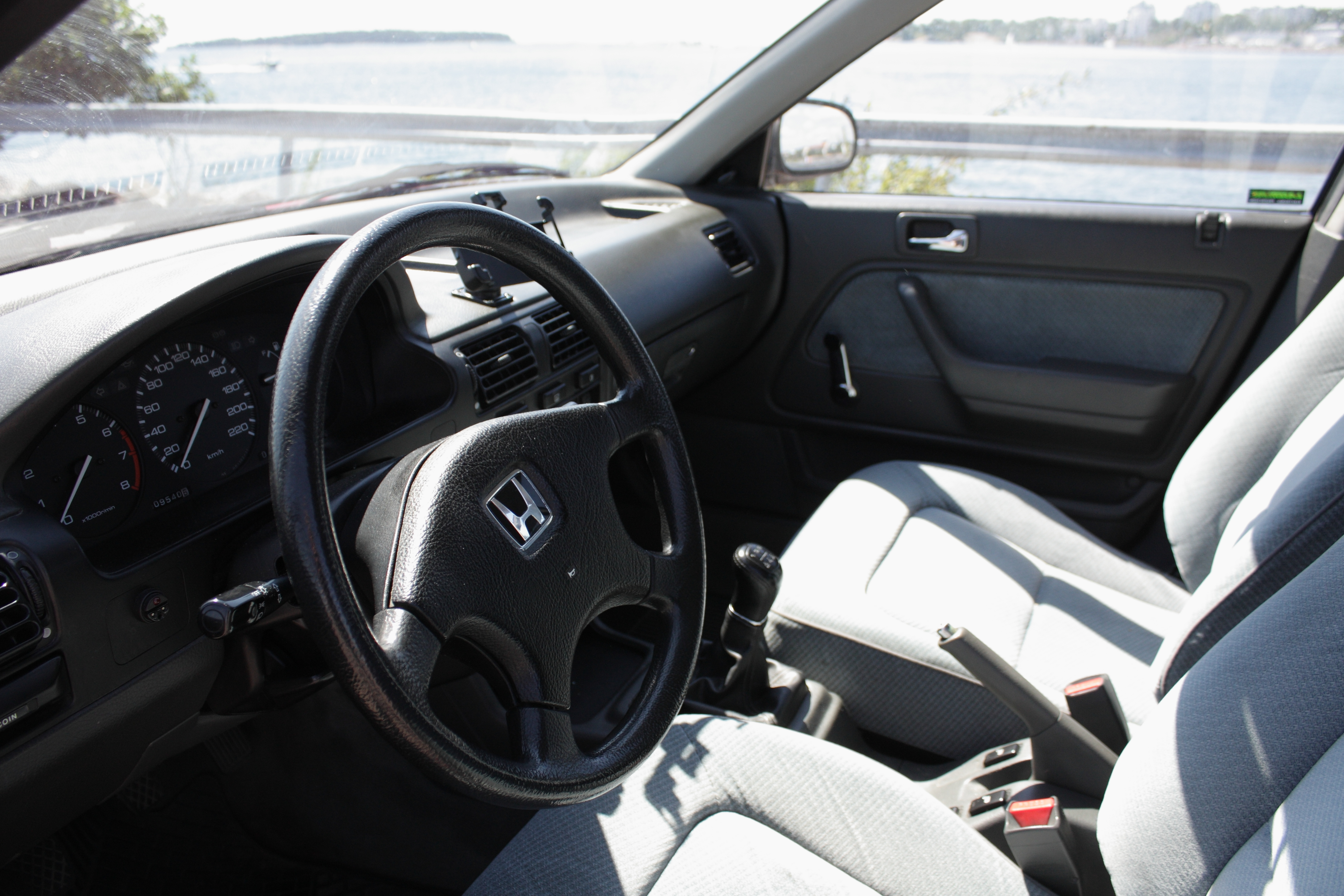 The dashboard of a Finnish Honda Accord 1993. The alarm system's red light and connector, that are not original, are visible under the RPM.